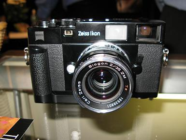 I created this image at the Photo Plus Expo, held in NYC at Jacob Javits Center in October, 2007.